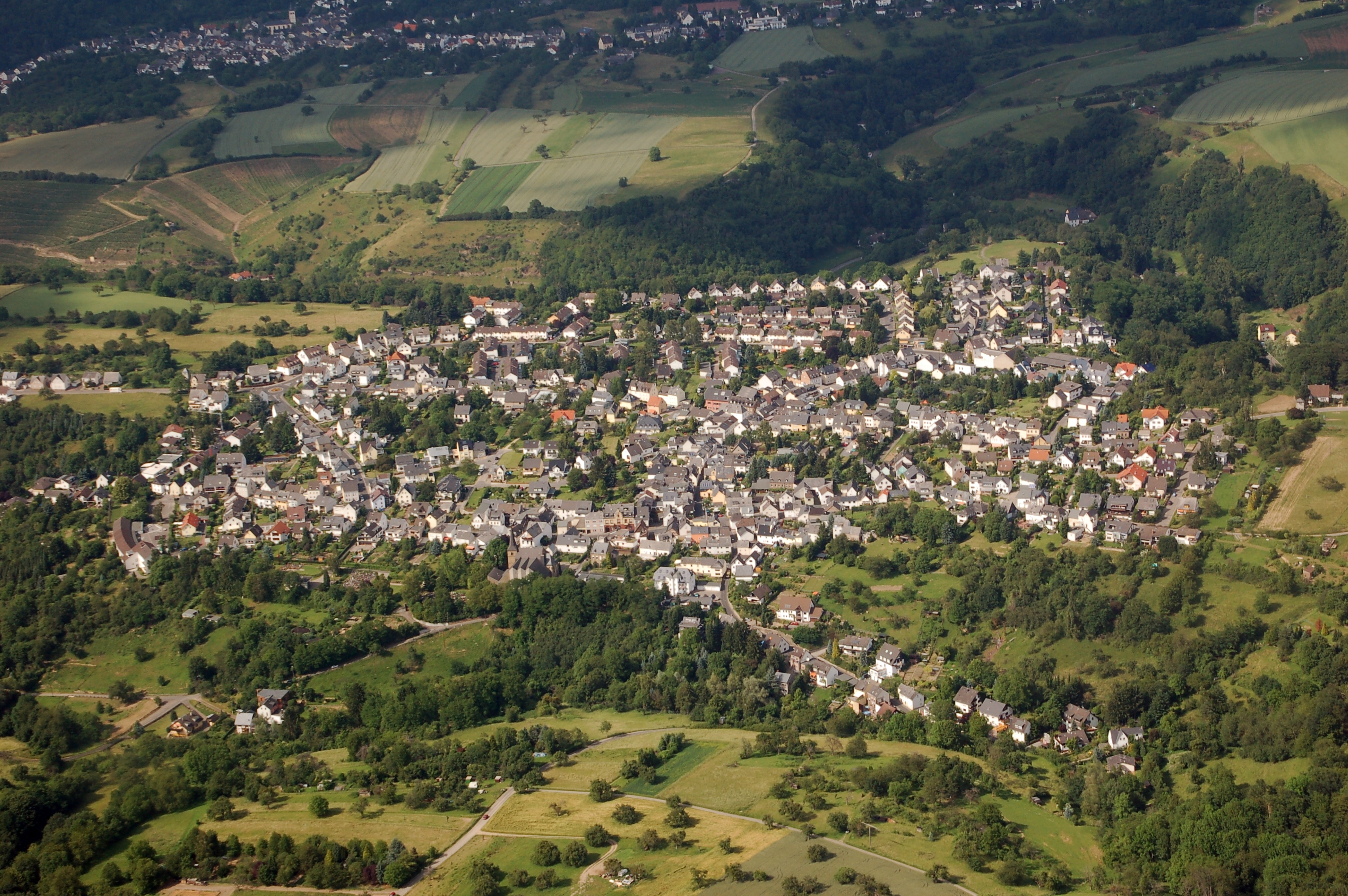 Aerial photograph of Koblenz-Arzheim, Rhineland-Palatinate, Germany